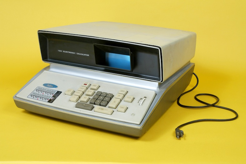 Friden Model 132 calculator. The object in this image is within the permanent collection of The Children’s Museum of Indianapolis